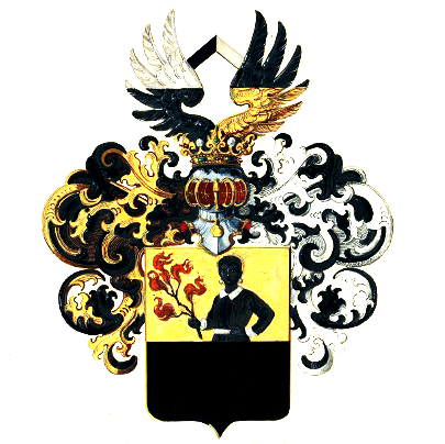 Coat of Arms of Koehler family